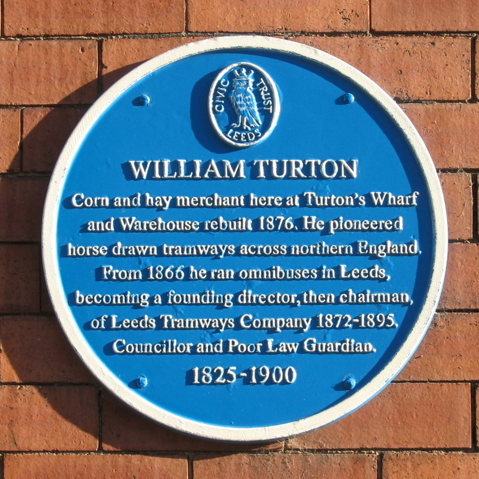 Blue plaque in Calls, Leeds on the building now called The Chandlers, formerly the business premises of William Turton of Leeds.